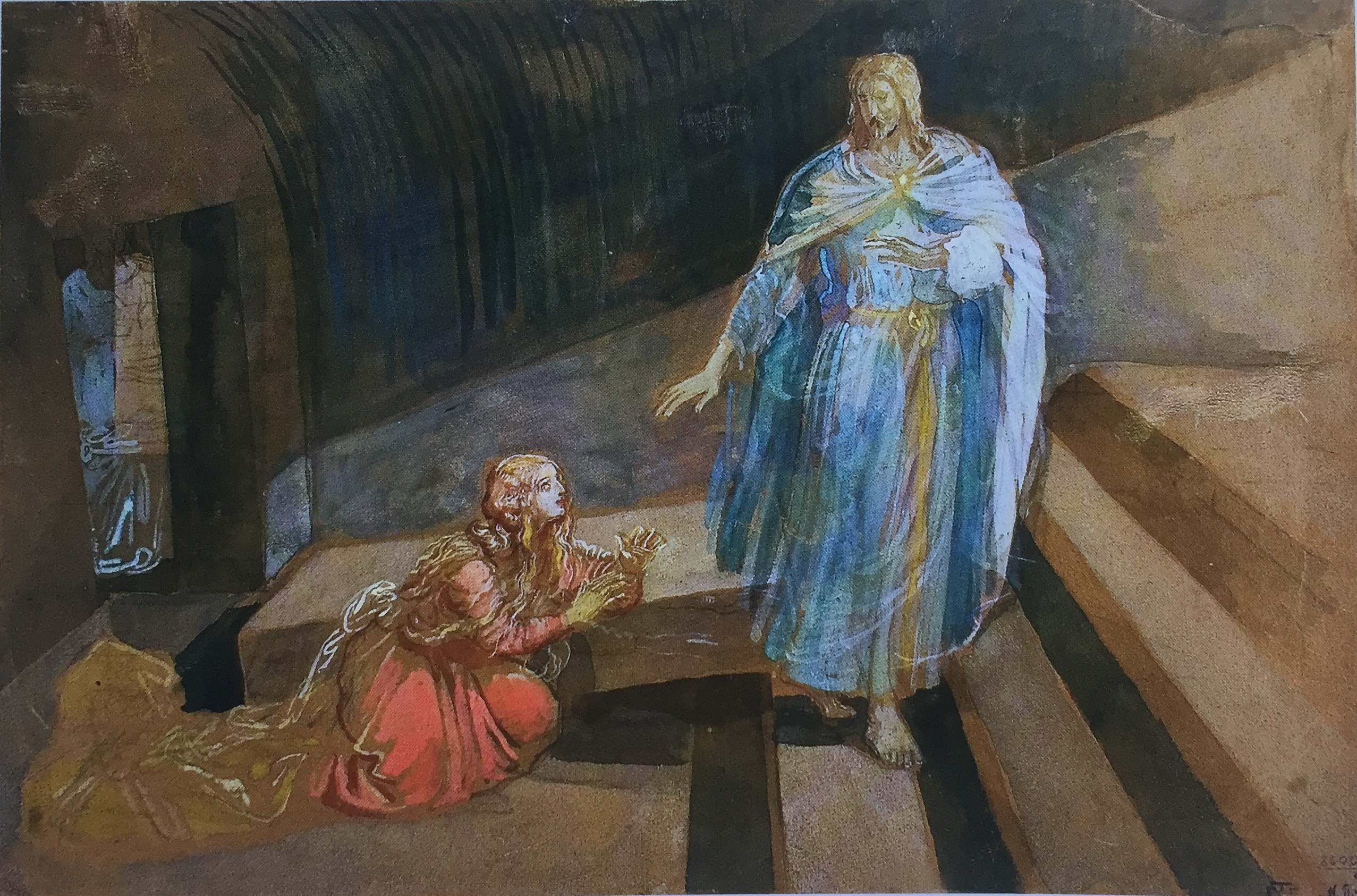 Christ's Appearance to Mary Magdalene after Resurrection (drawing by Alexander Ivanov, end of 1840s - 1850s)